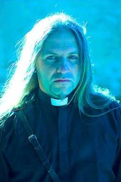 Piotr "Peter" Wiwczarek (guitar), member of Polish death metal band Vader